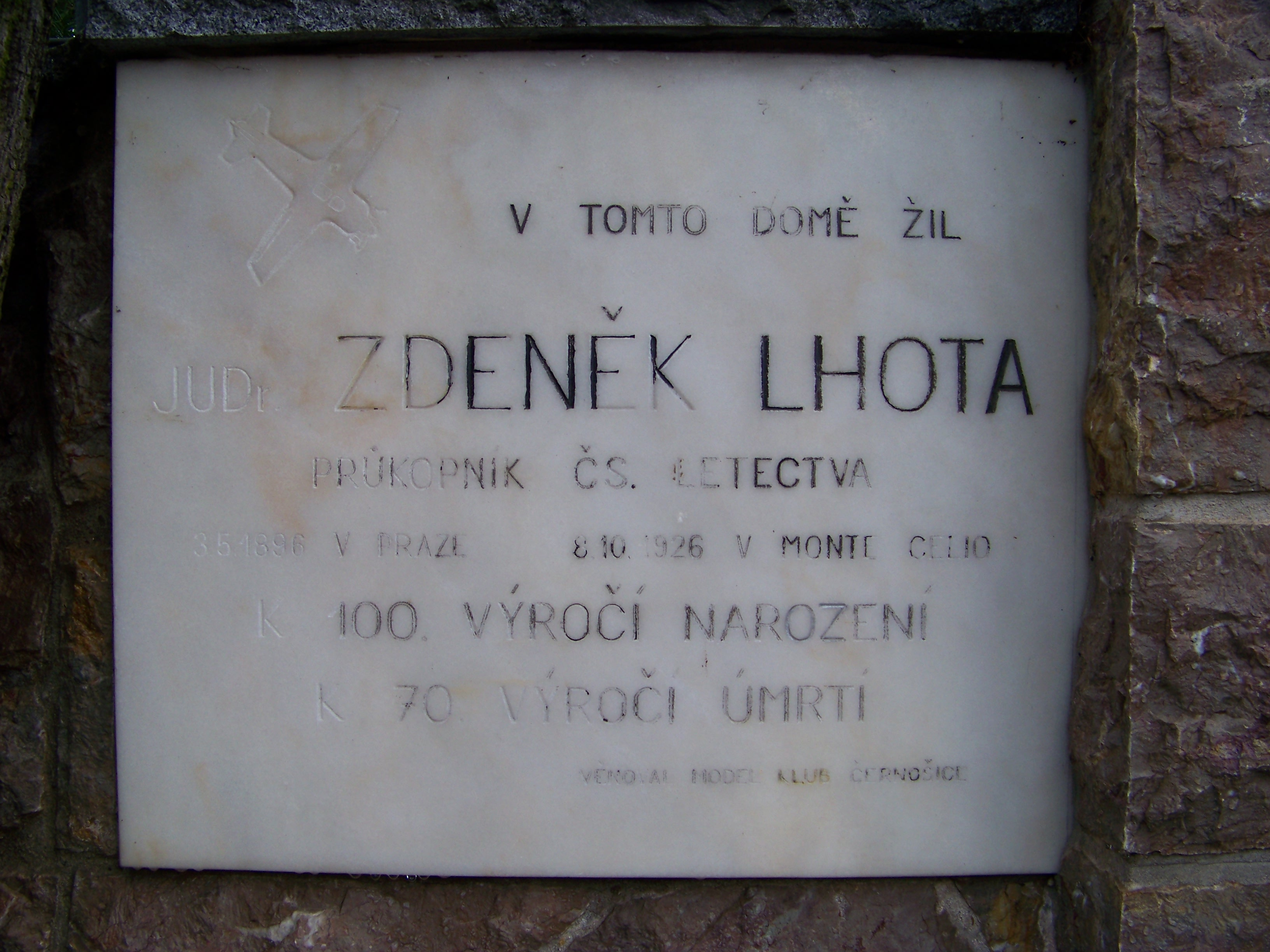 Černošice, Prague-West District, Central Bohemian Region, the Czech Republic. Zdeňka Lhoty street, a villa of Zdeněk Lhota, No 466, a plaque to Zdeněk Lhota.